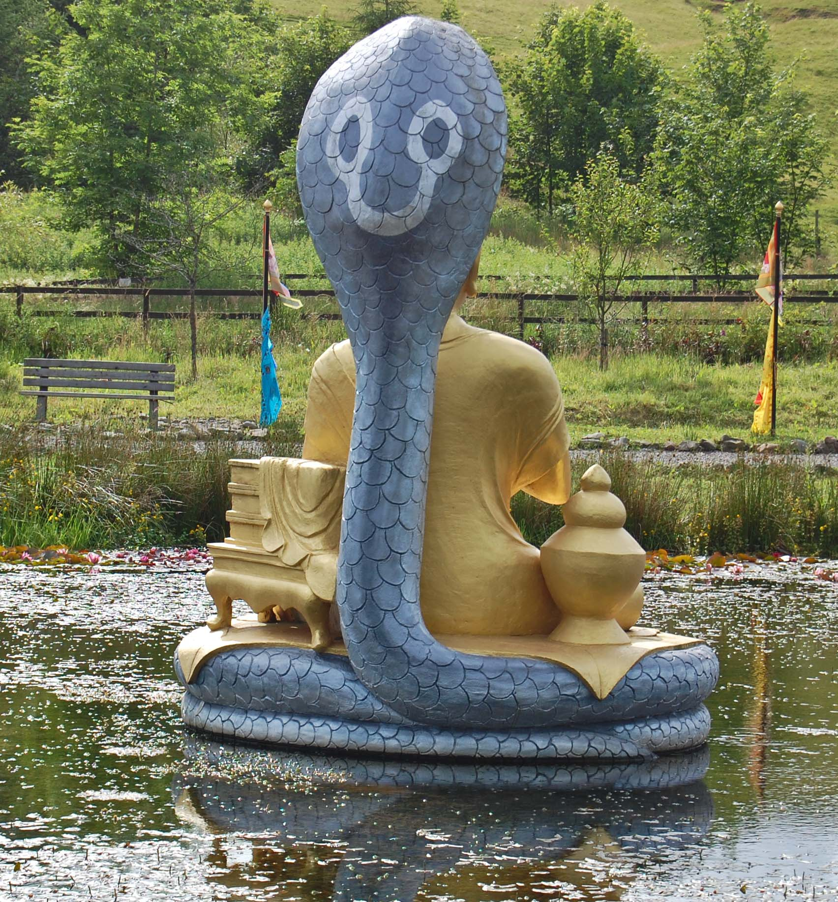 Giant Naga part of Nagarjuna statue, Samye Ling.